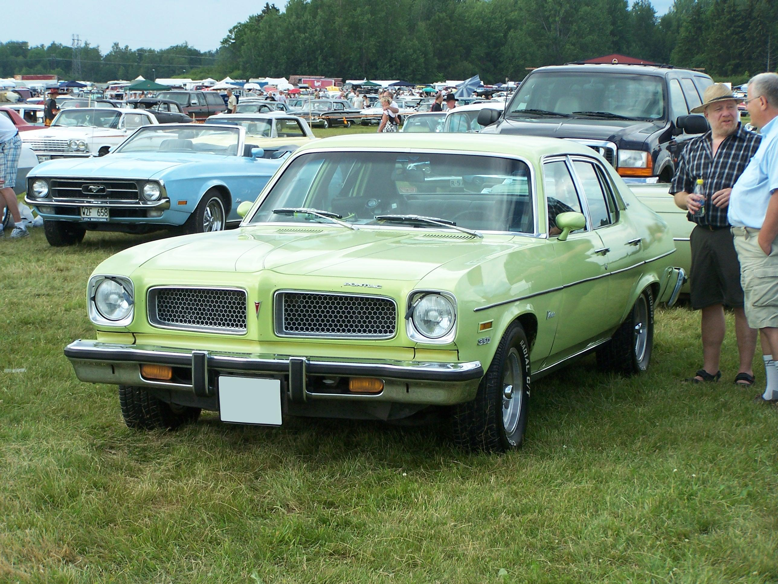 1974 Pontiac Ventura 4-door sedan at Power Big Meet 2009, Västerås, Sweden